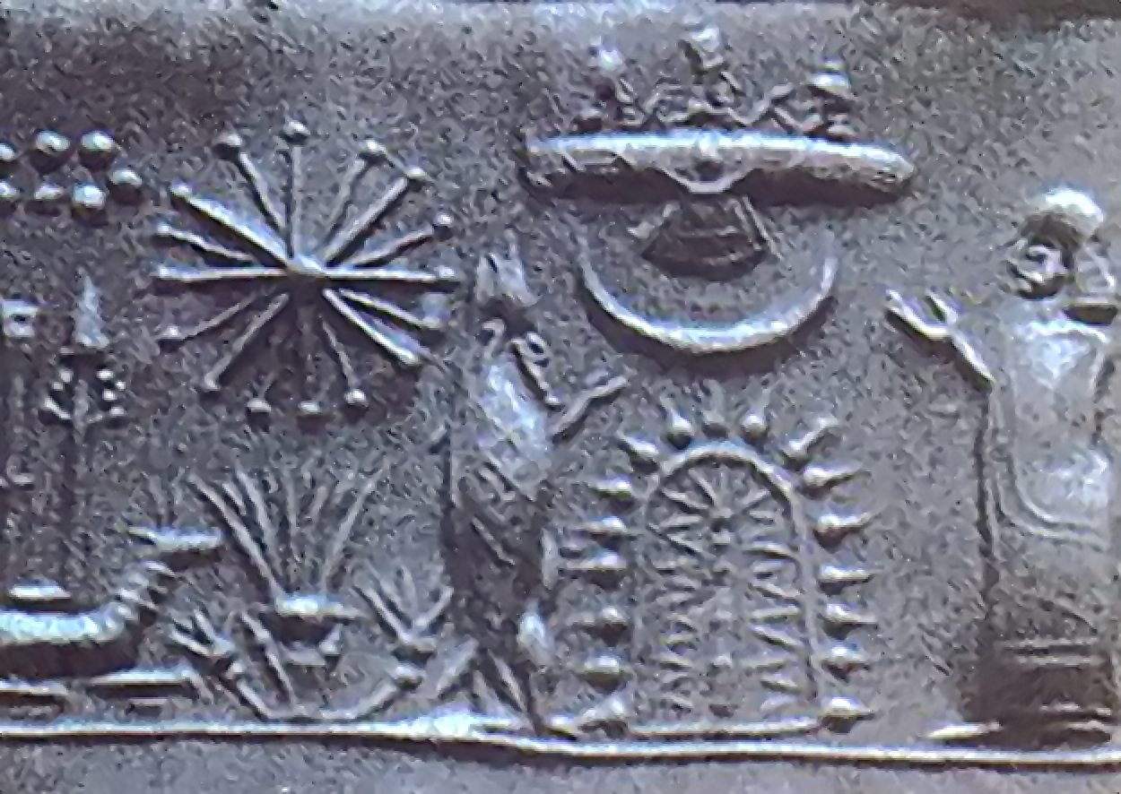 1st Millennium seal showing a worshipper and a fish-garbed sage before a stylised tree with a crescent moon & winged disk set above it. Behind this group is another plant-form with a radiant star and the Star-Cluster (Pleiades cluster) above. In the background is the dragon of Marduk with Marduk's spear and Nabu's standard upon its back.